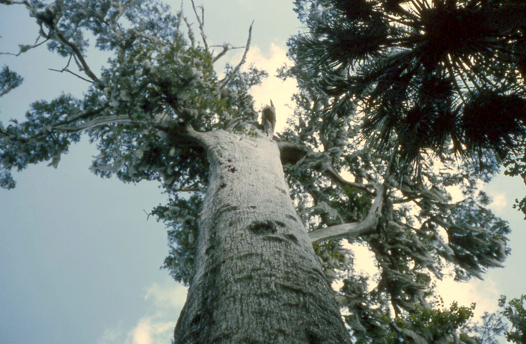 "Senator", large Baldcypress tree in Florida, looking upward.